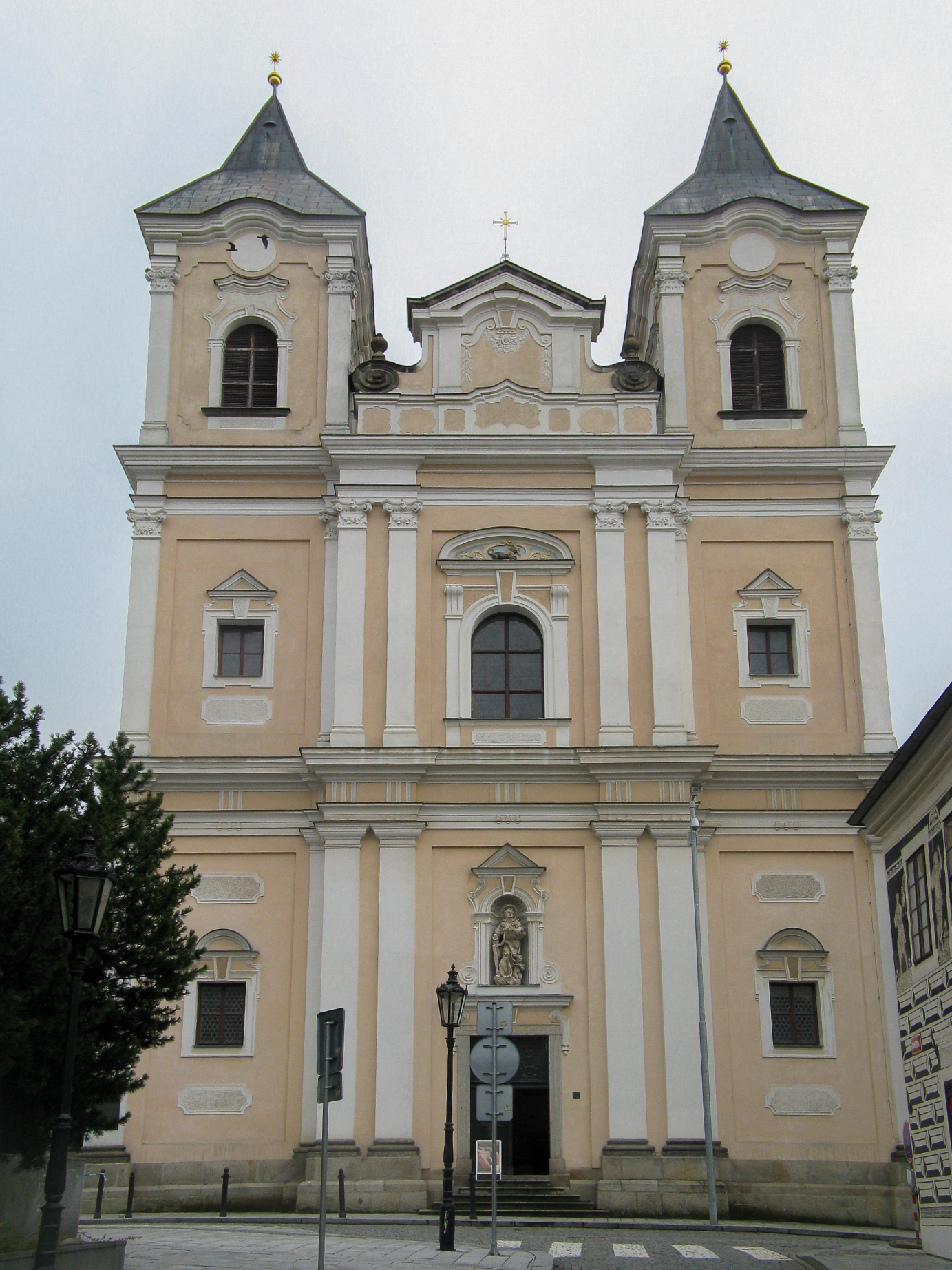 Klatovy former Domicican Church